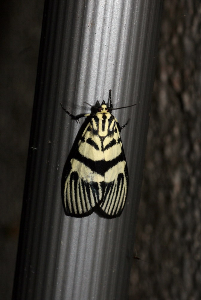 Malaysia, Fraser's Hill. March 2009